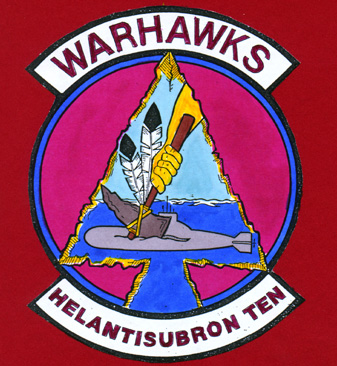 HS-10 Squadron Insignia